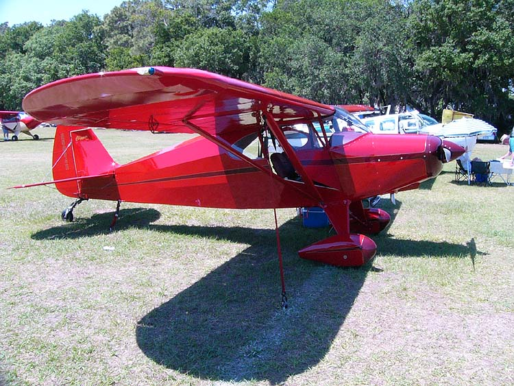 I took this photo at Sun 'n Fun 2006